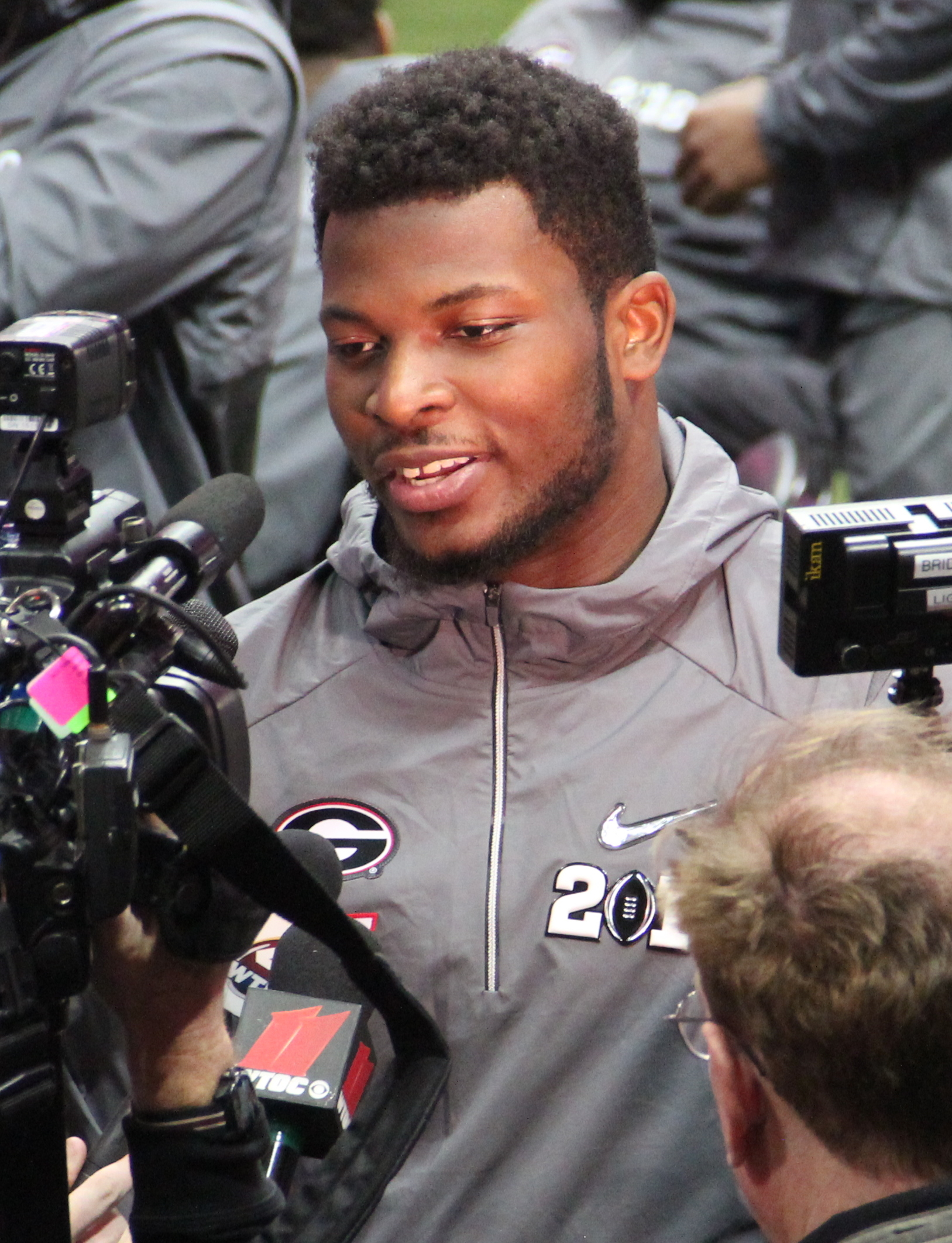 Lorenzo Carter, UGA player in 2018